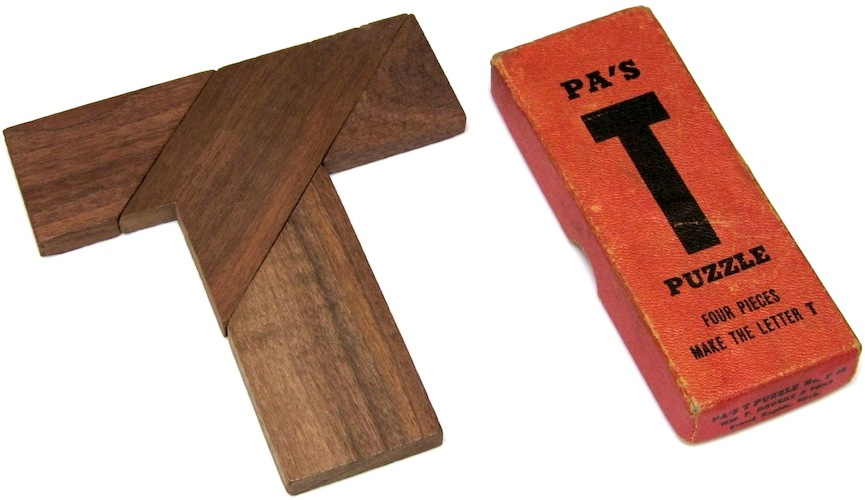 Pa's T Puzzle, circa 1940's. (cardboard box 4.6 by 1.75 by 11/16 inches and 4 walnut pieces, 5" high by 4.75" wide when solved; box edge says "PA'S T PUZZLE No. P 20 WM. F. DRUEKE & SONS Grand Rapide, Mich.")